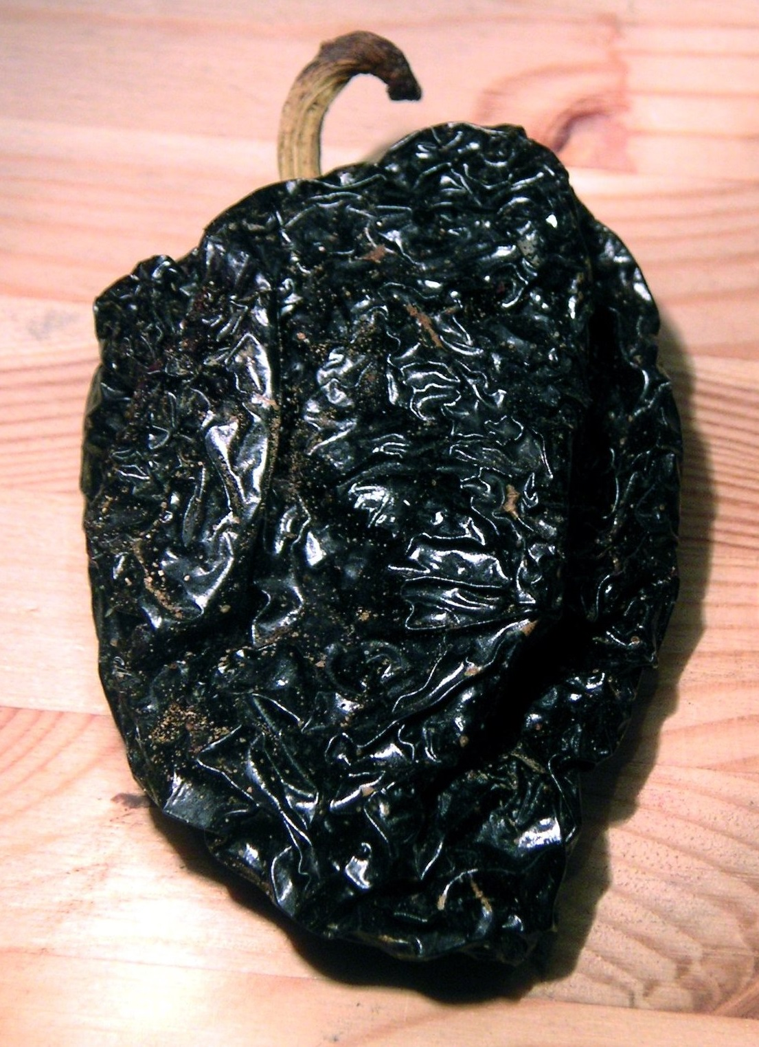 Dried fruit of Capsicum annuum cv. 'Poblano' (called 'Ancho' when dried)